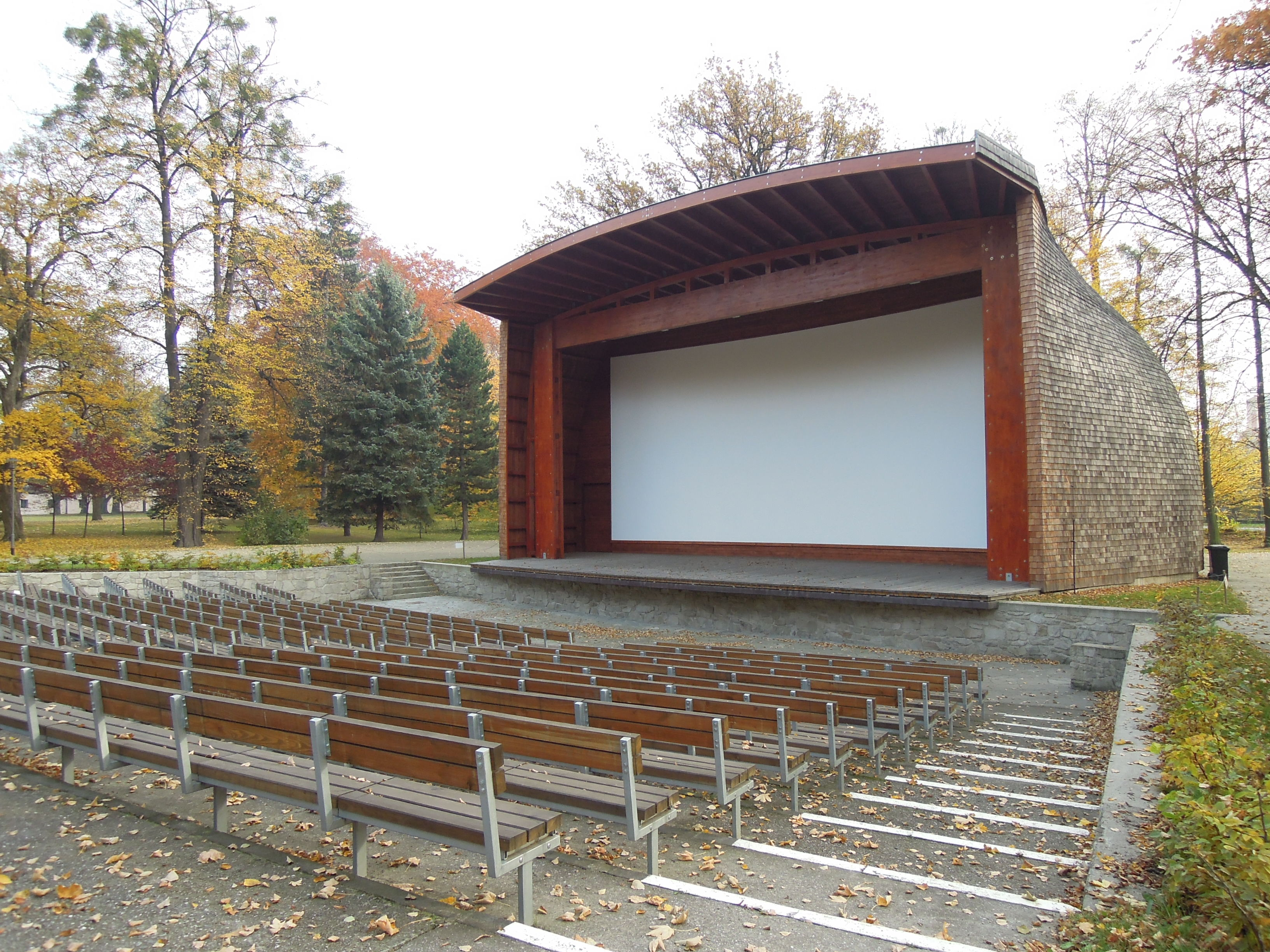 Open air cinema in Valašské Meziříčí, Zlín Region, Czech Republic